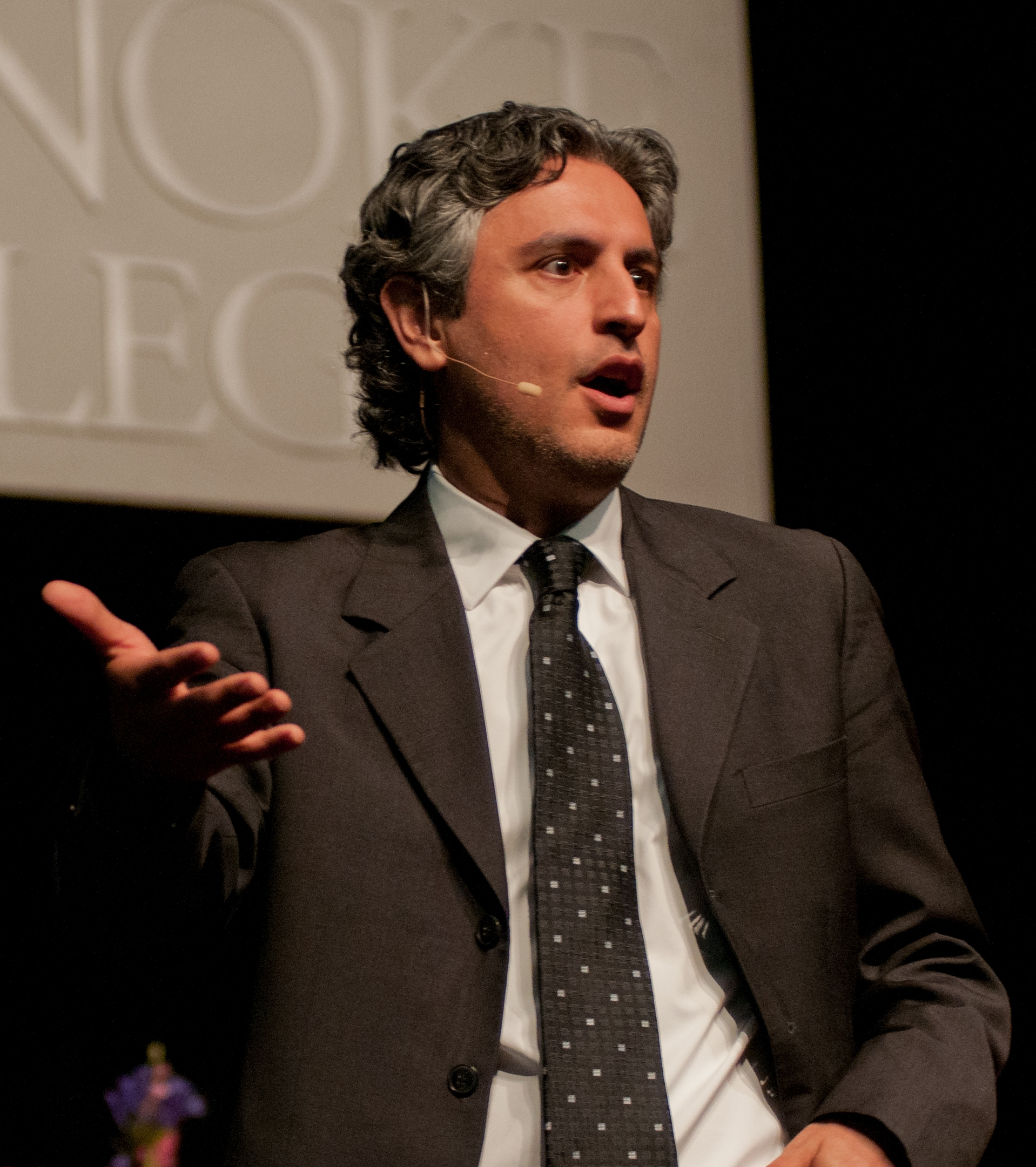 Reza Aslan was welcome at Roanoke College by a large crowd in the Bast Gym speaking on the topic: "Unfolding Democracy in the Muslim World? The Promise of the Arab Spring."